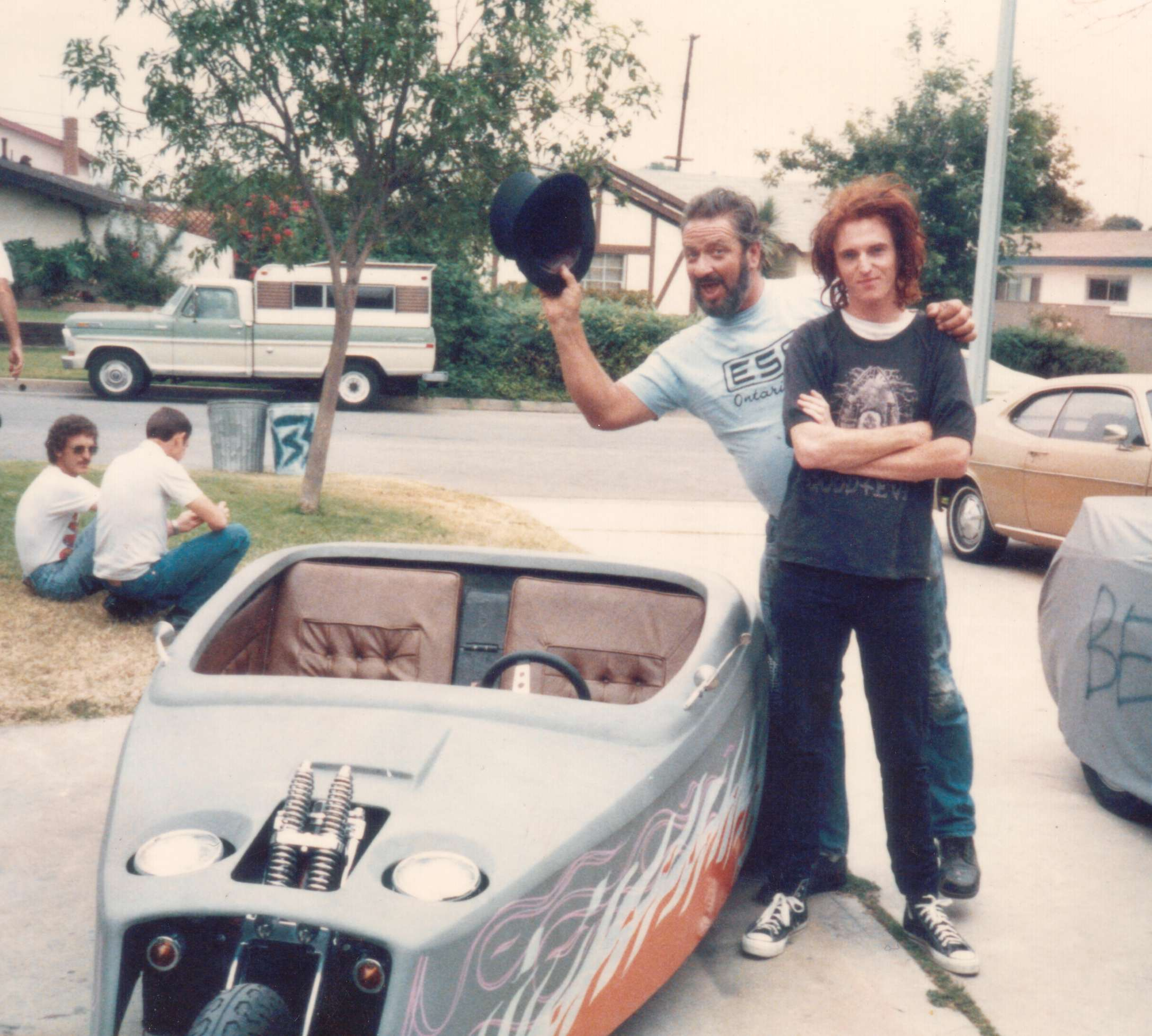 Big Daddy Ed Roth and Paul Conroy (Australian musician) at Roth's home on San Feliciano Drive, in La Mirada,Ca 1987